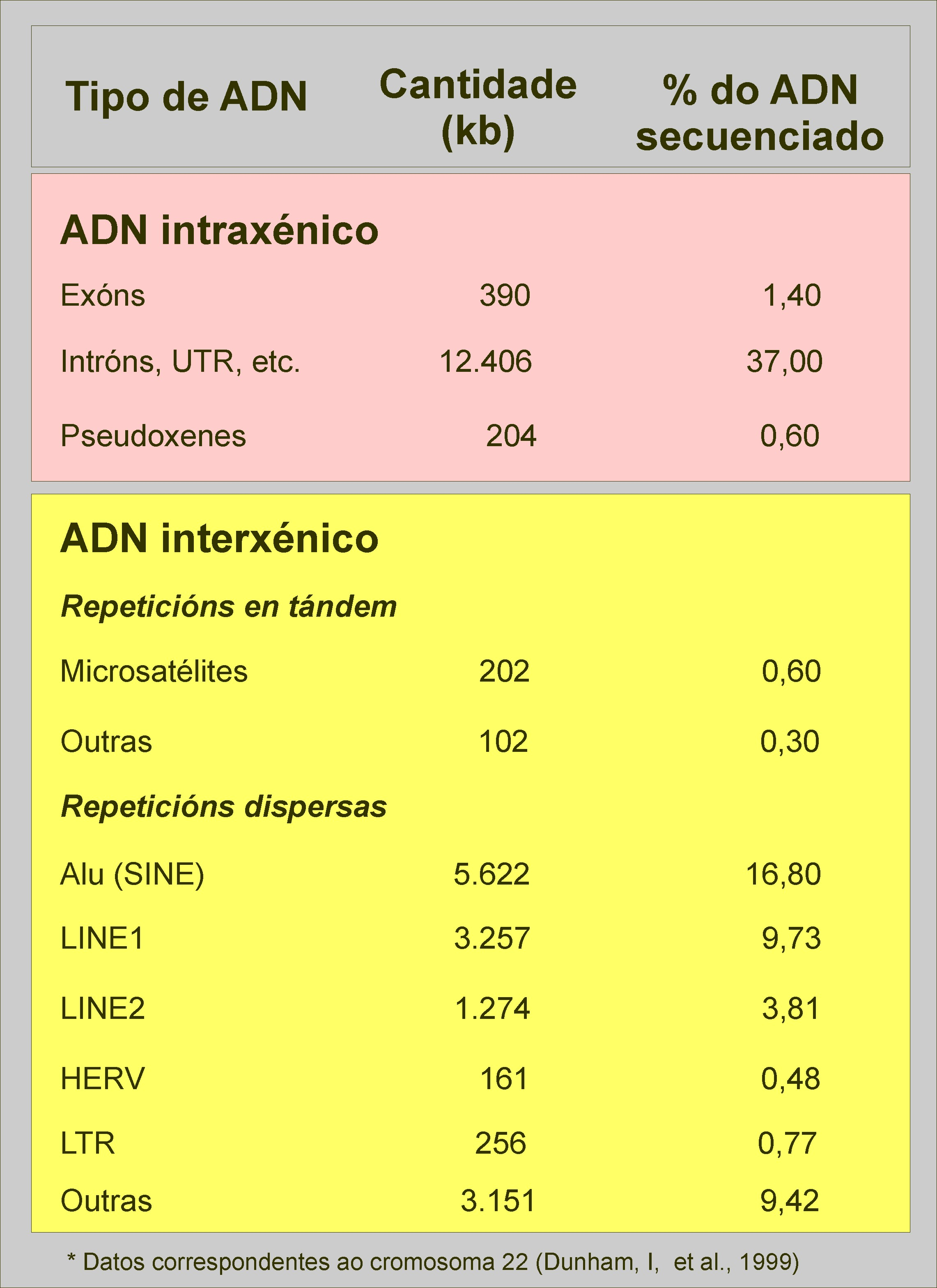 genes of the human chromosome 22